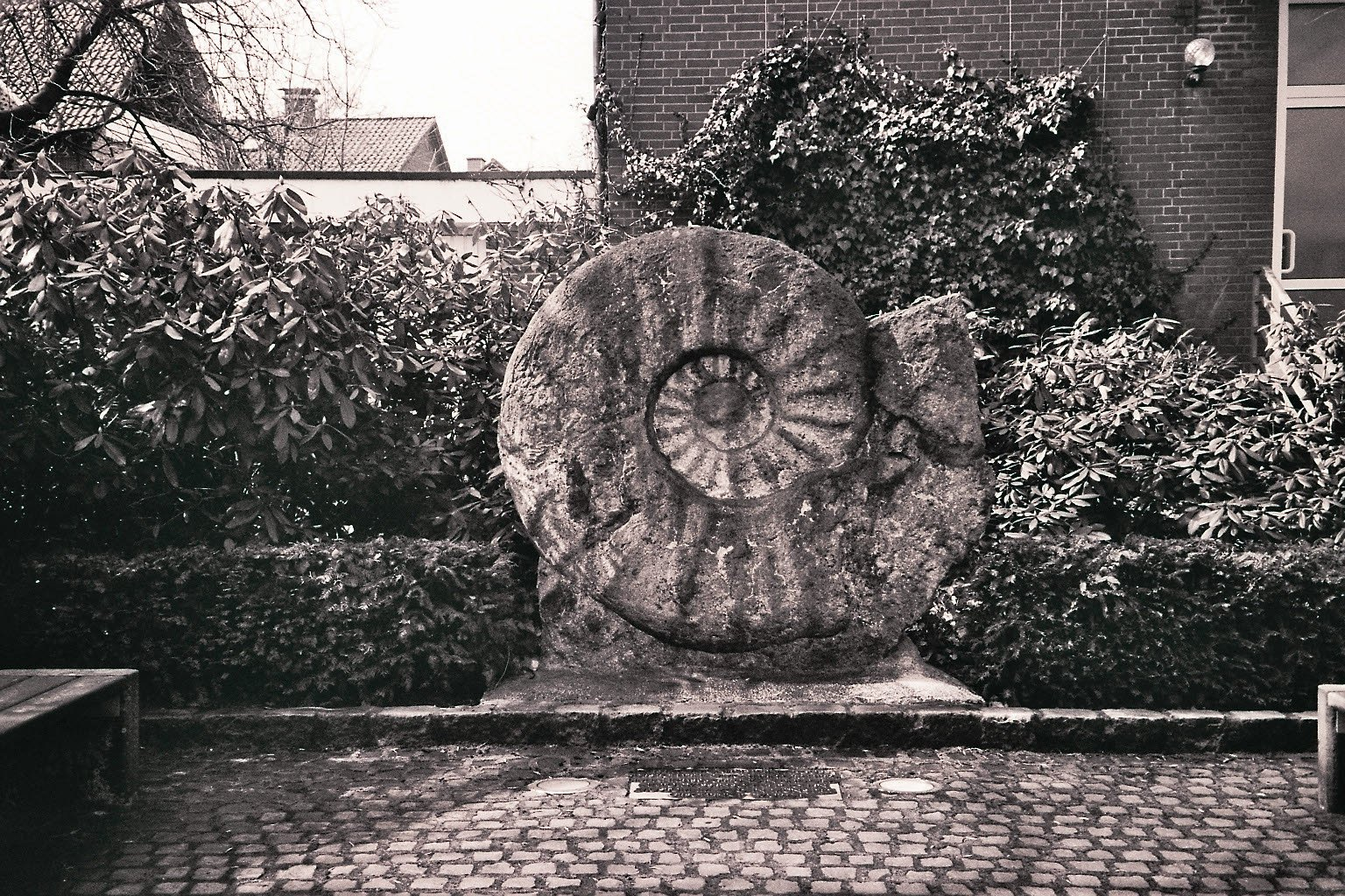 Cast of the largest known ammonite, Parapuzosia seppenradensis, located in Seppenrade, Germany, where it was discovered